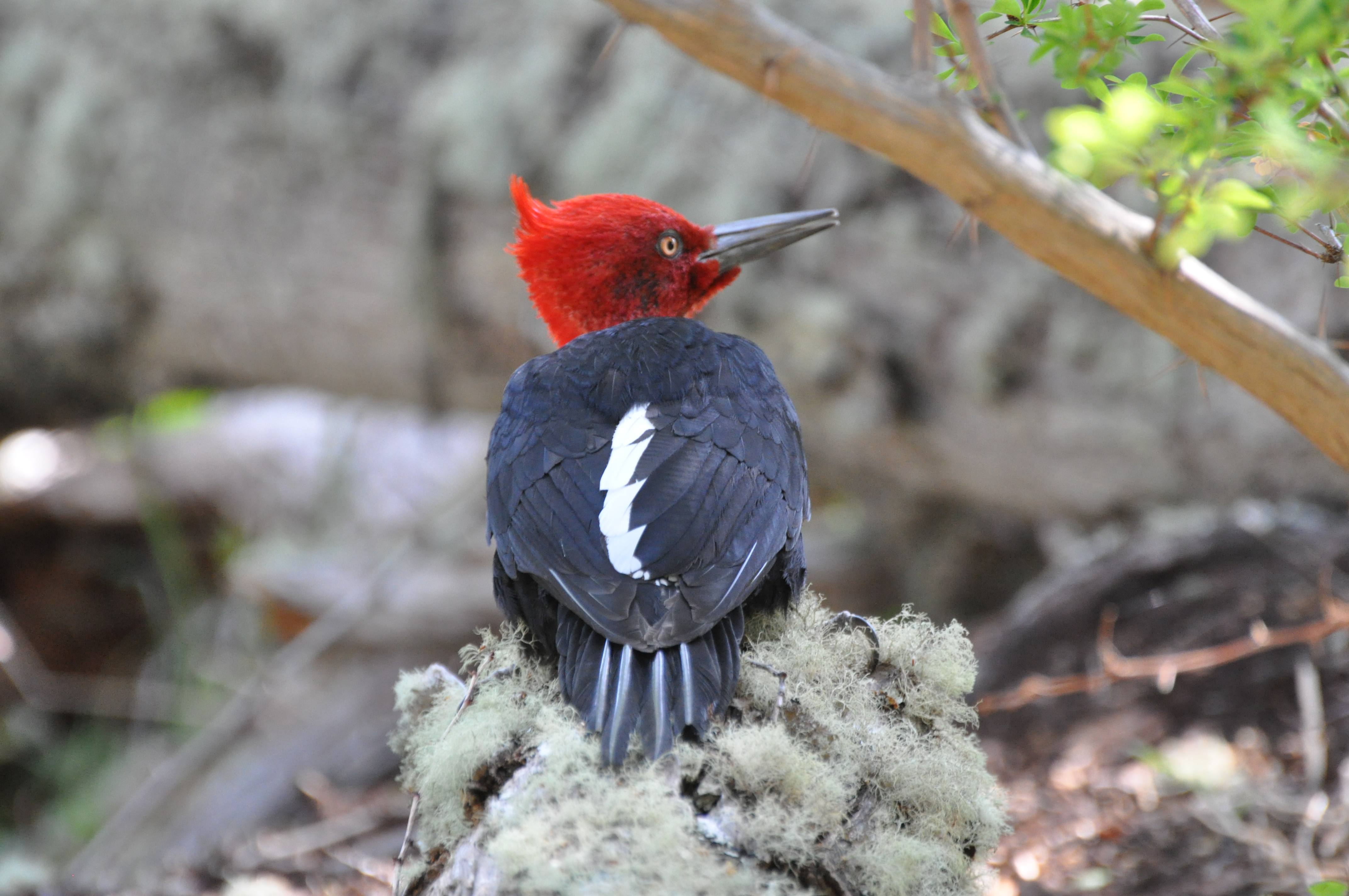 Magellanic Woodpecker Male (Campephilus magellanicus), National Park of Tierra del Fuego, Tierra del Fuego, Argentina